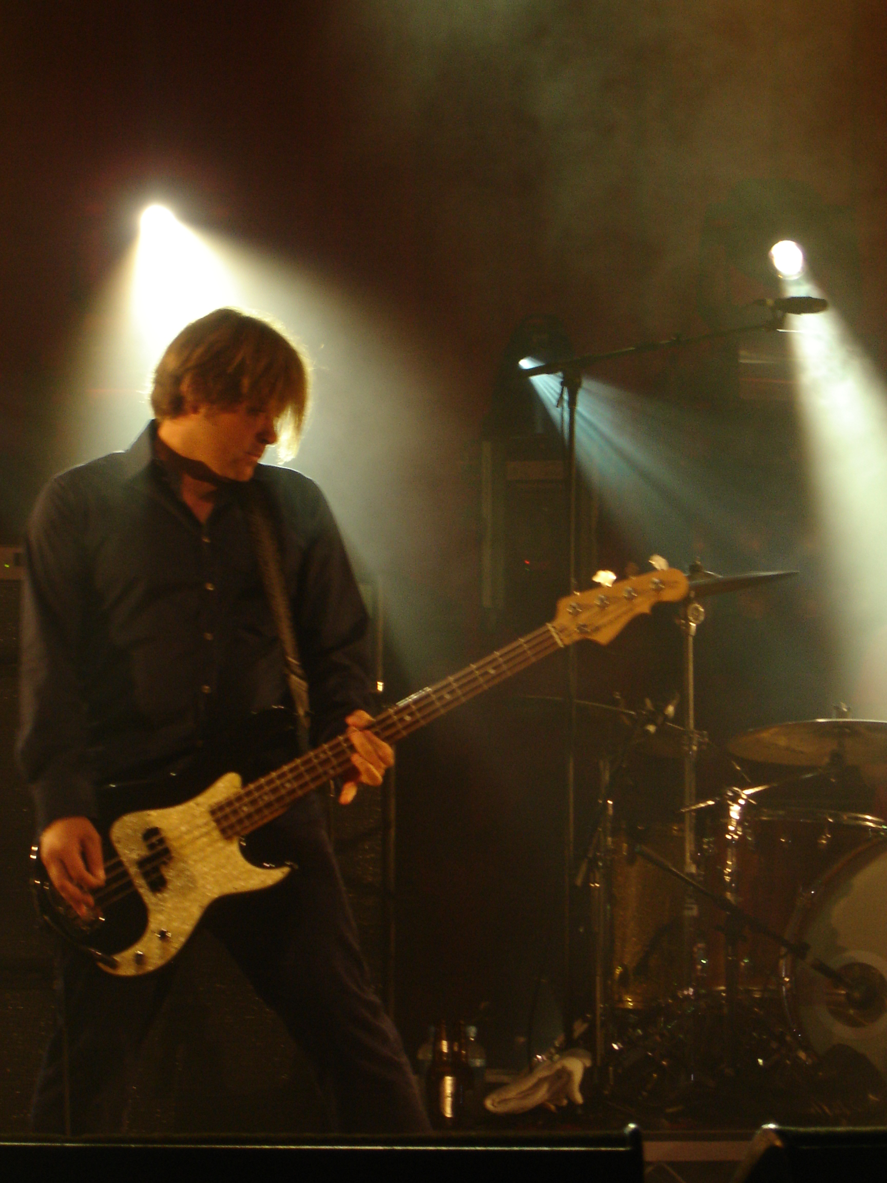 John Collins (Australian musician) Taken at Rock and Soul Revue, Brisbane. 2005.